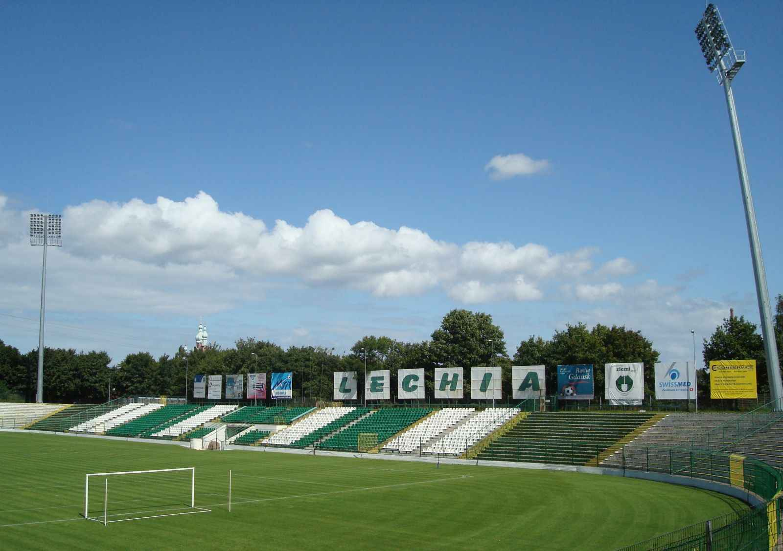 Lechia Gdansk Stadion, 29 Traugutta Street, Gdansk, Grandstand "Prosta", August 2008, (c) by Sitek_LG